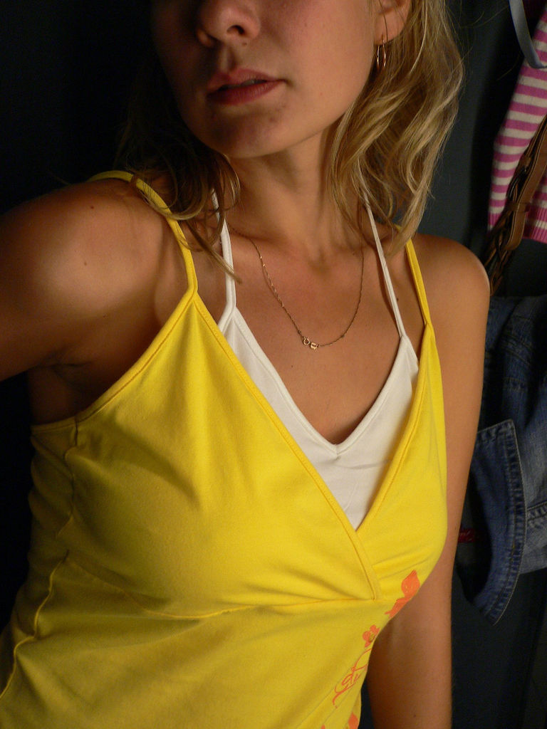 Photo by willgame taken from of a woman wearing a yellow tank top.